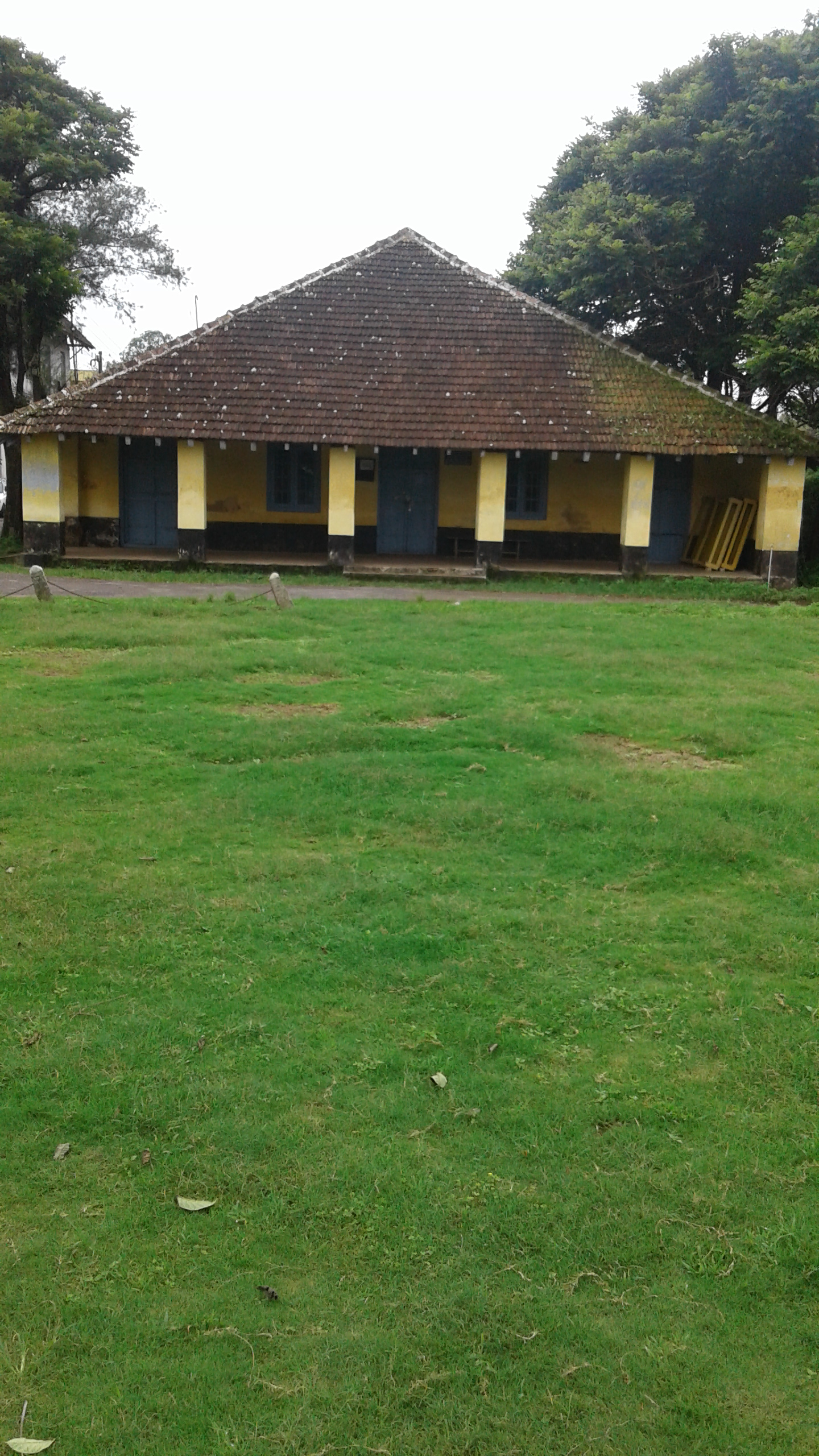 Kodagu district, Karnataka state, India.